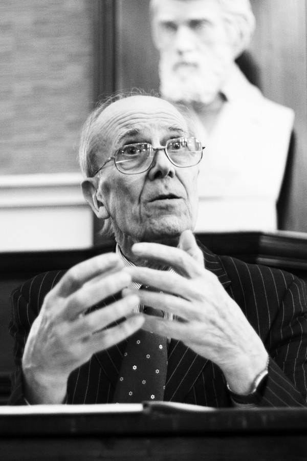 Norman Tebbit giving a talk for the Edinburgh University Politics Society in Teviot. 10th January 2008.